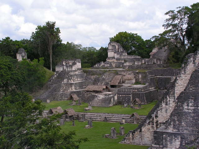 North Acropolis, Tikal, Guatemala.